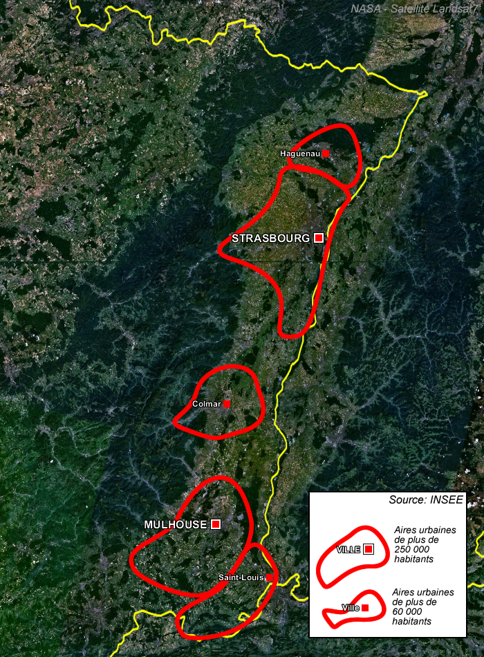 satellite map of Alsace with urban area